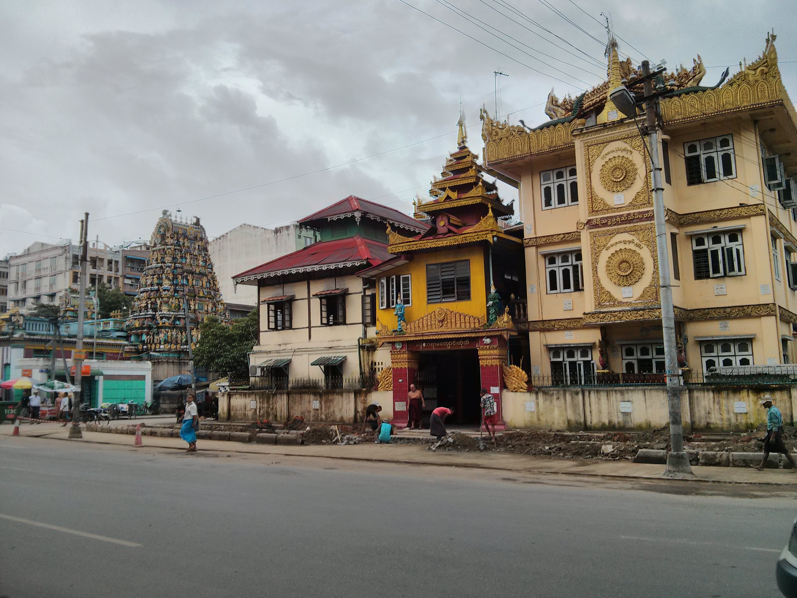 Streetview in downtown Yangon, corner Anawratha Road/51st Street, Sri Devi temple on the left, August 2013